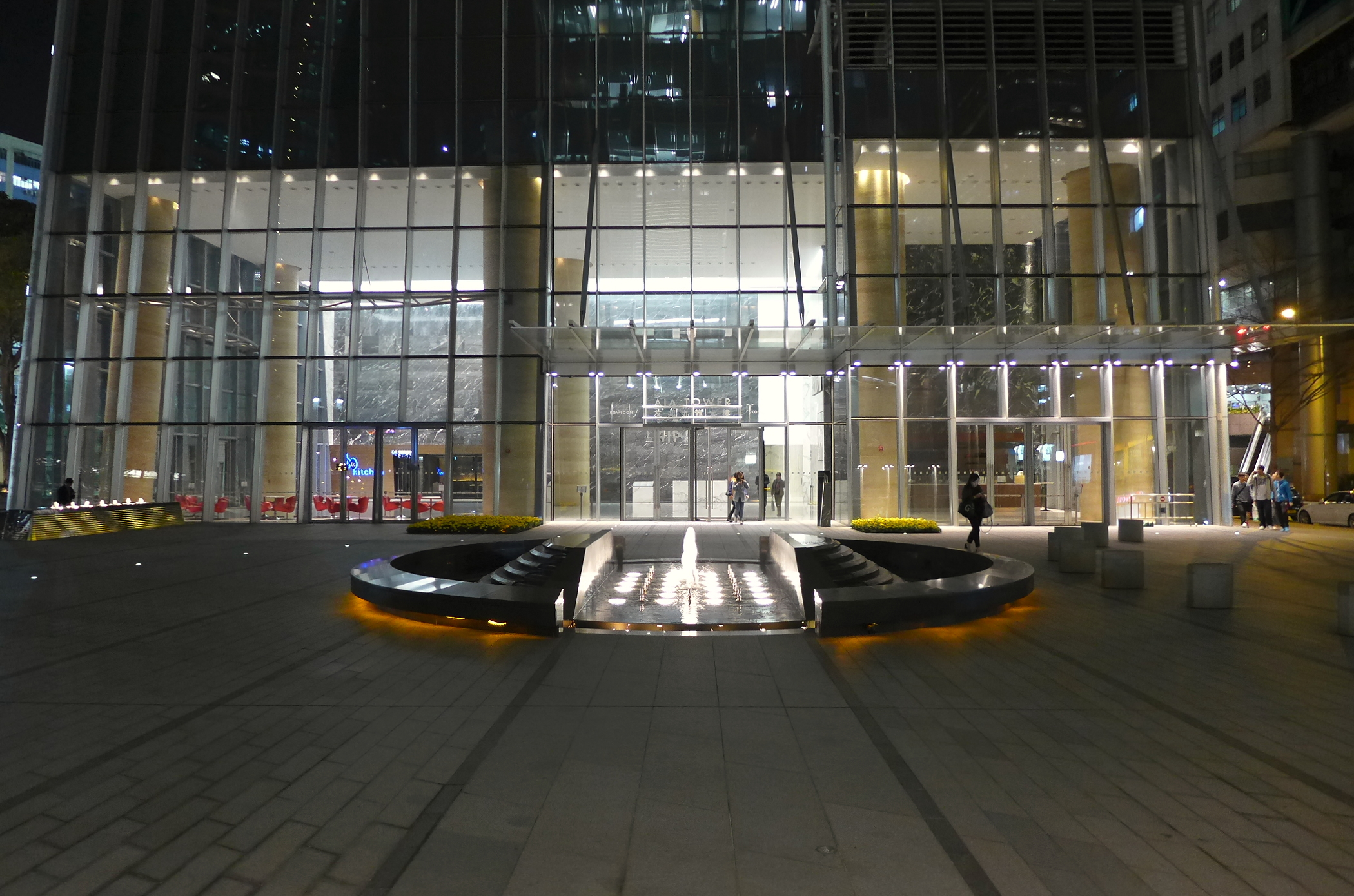 Landmark East Drop off area